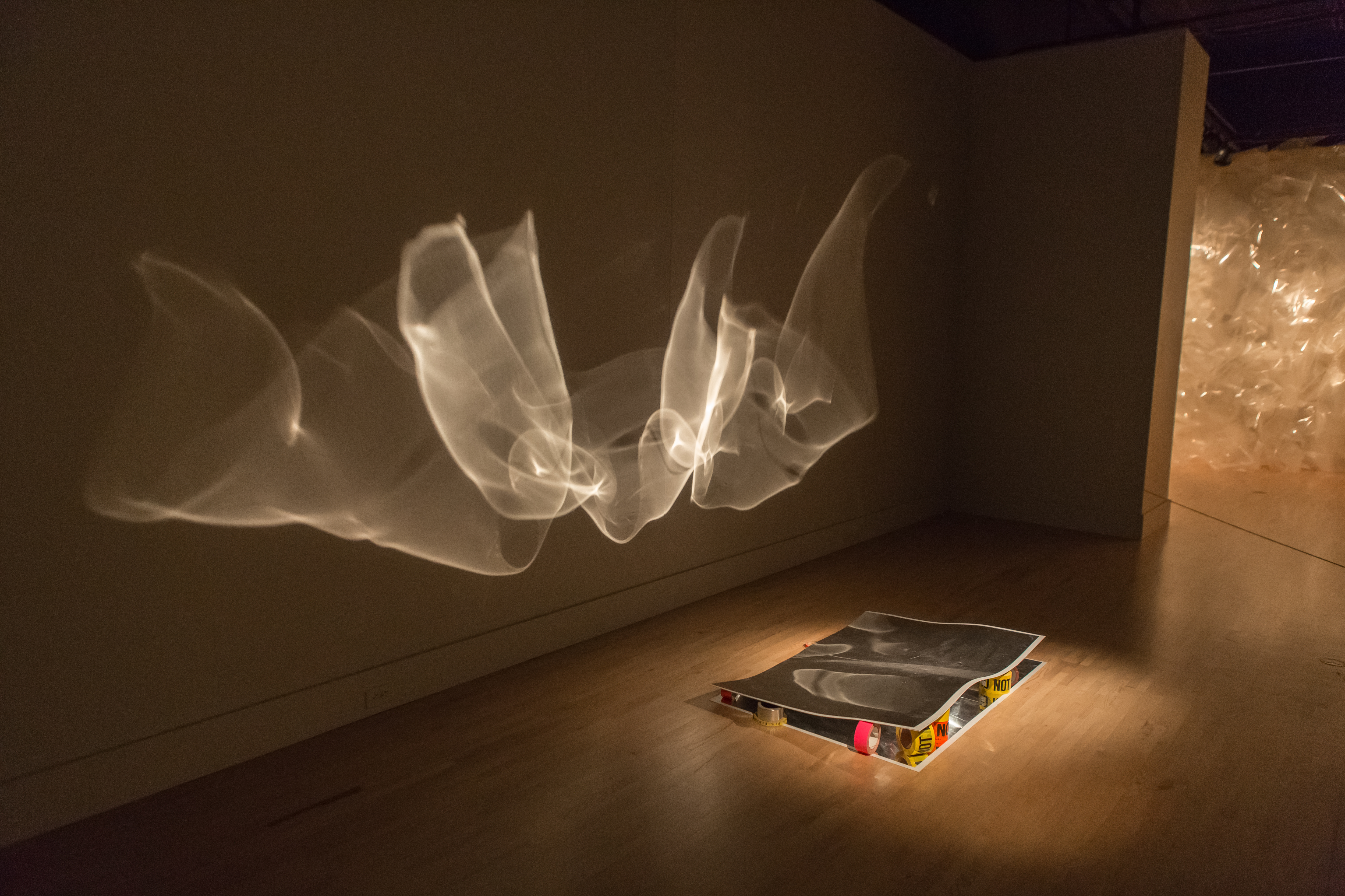 An artwork by an artist, installed at ArtPrize in 2013